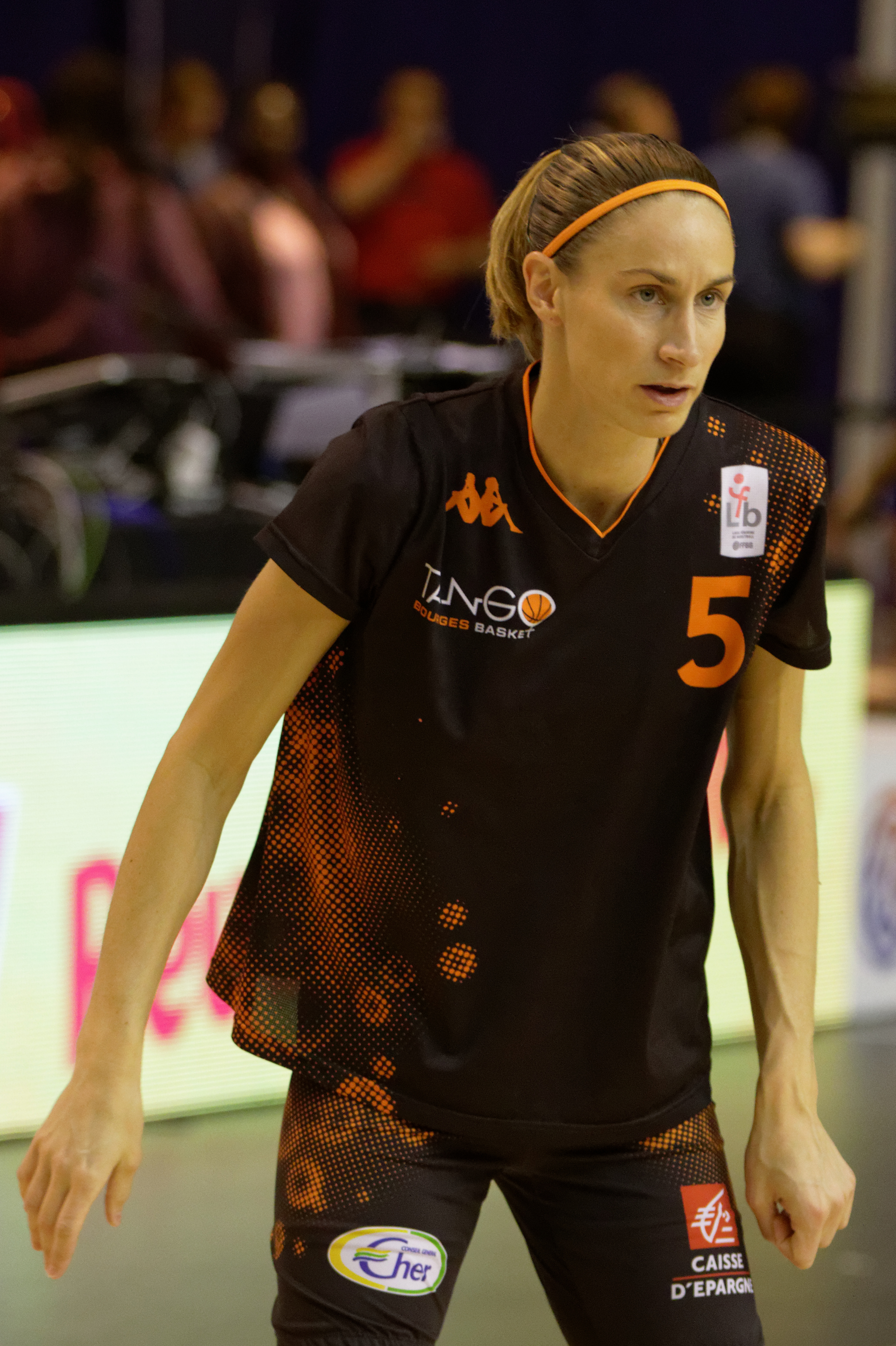 Final of the French Basketball Cup, Lattes-Montpellier vs Bourges, 2nd May 2015.